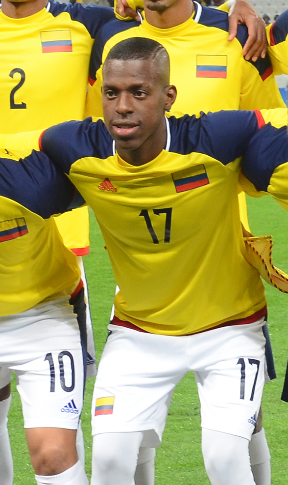 São Paulo - Colômbia vence a Nigéria por 2x0 na Arena Corinthians (Rovena Rosa/Agência Brasil)